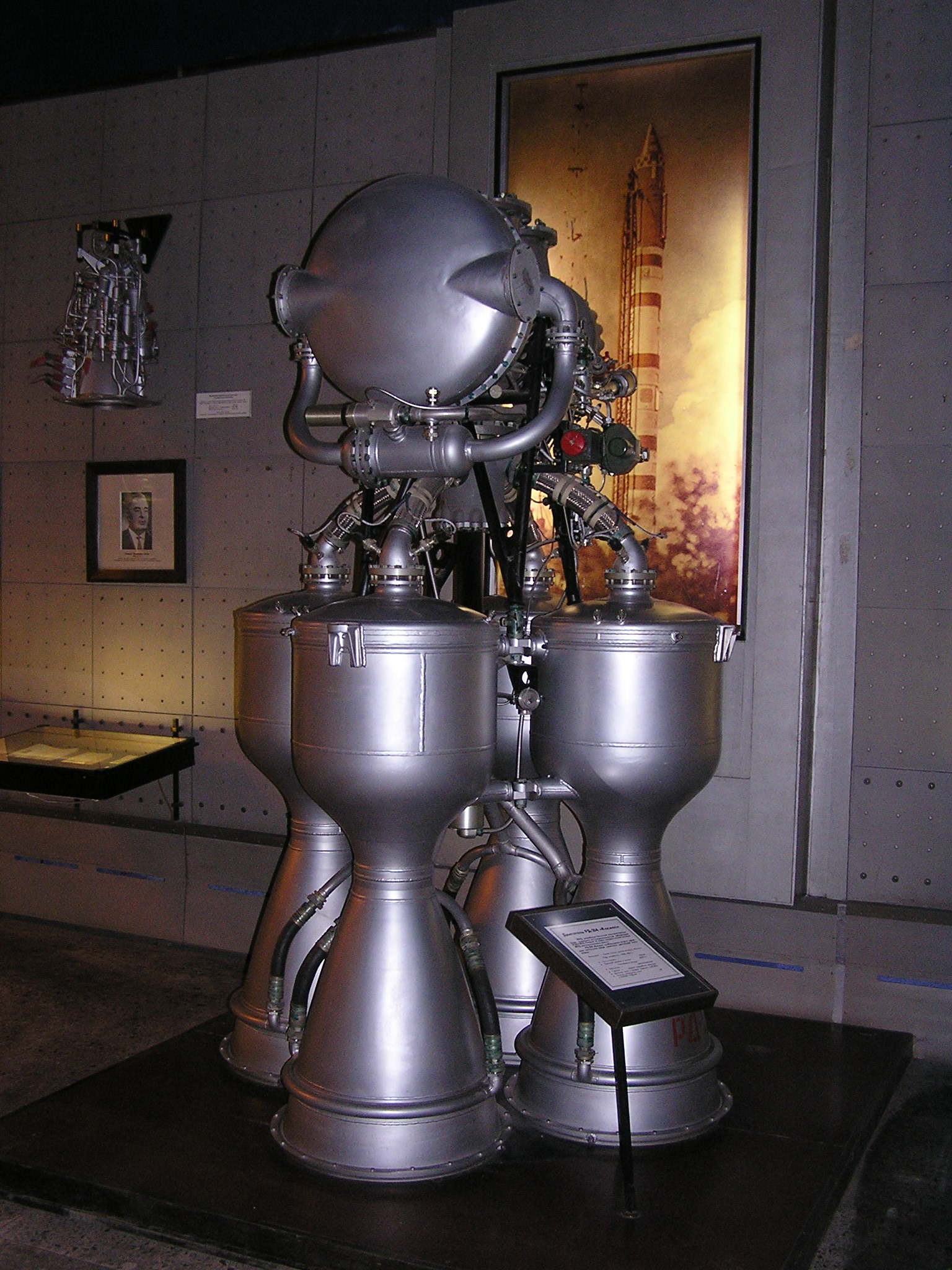 Museum of Space and Missile Technology (Saint Petersburg). RD-214 rocket engine for Сosmos LV first stage.